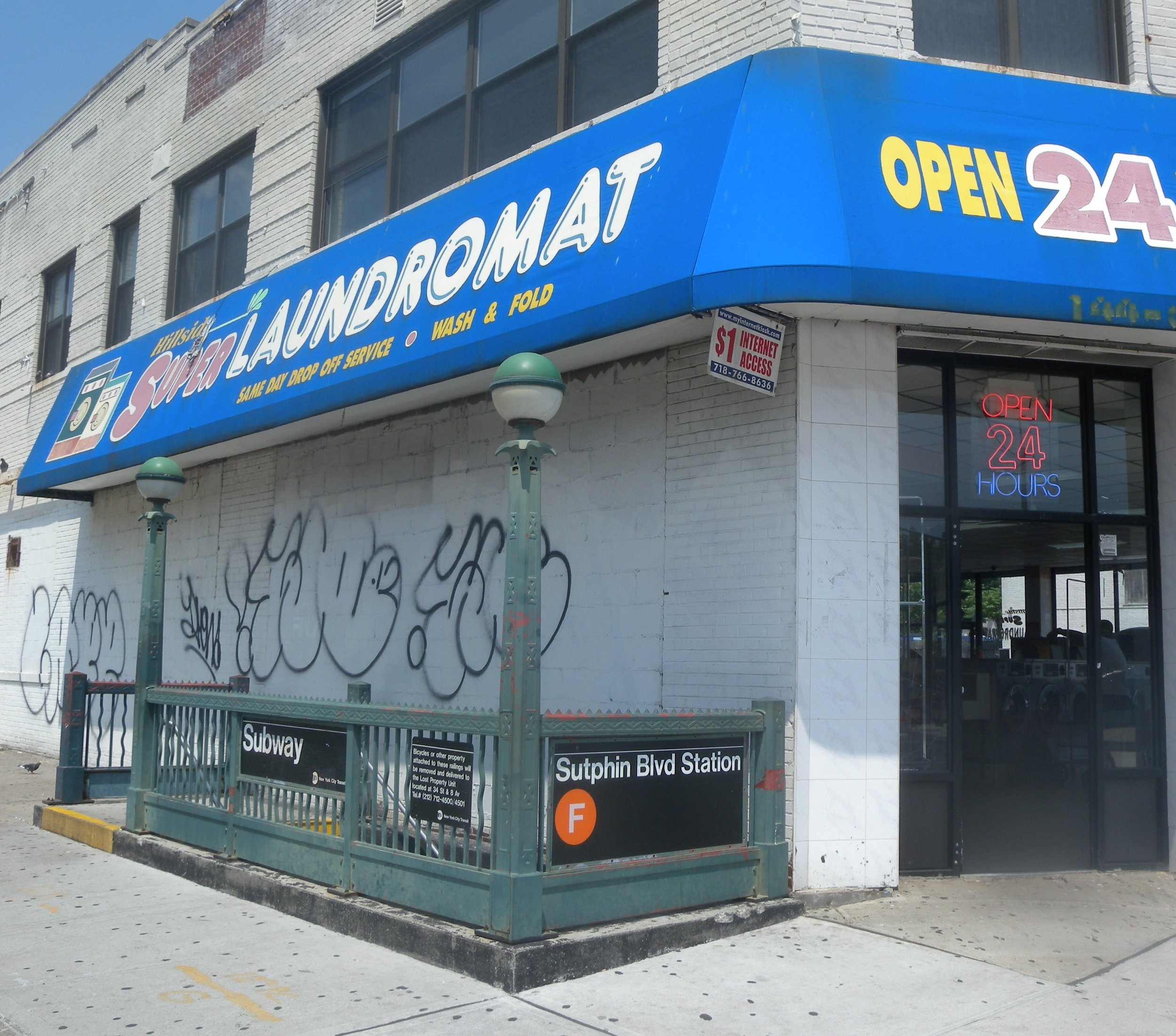 Looking north at subway entrance under laundromat's awning.